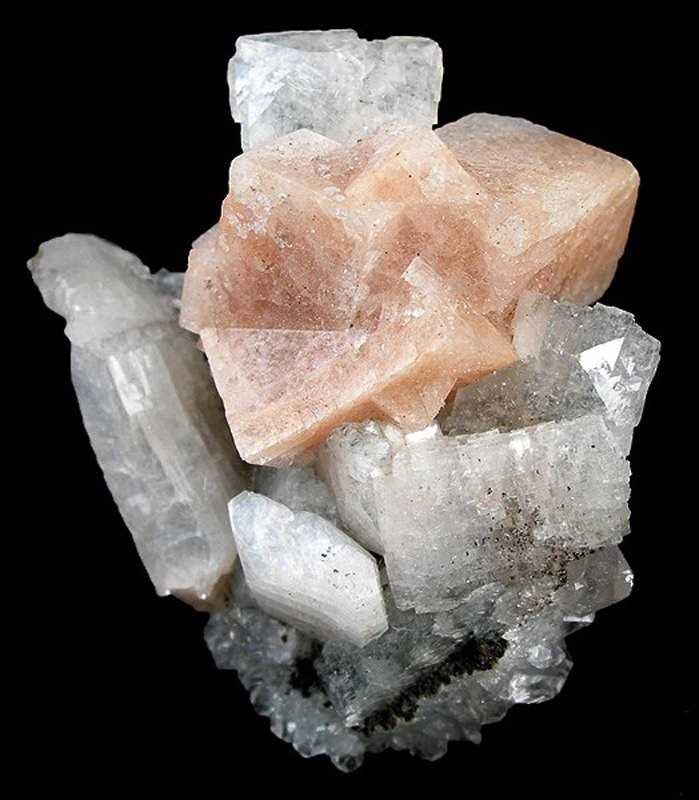 Chabazite-Ca, Heulandite-Ca Locality: Upper New Street Quarry (Burger's Quarry), Paterson, Passaic County, New Jersey, USA (Locality at ) Size: 4.1 x 3.4 x 2.4 cm. This is a sharp, attractive miniature of pastel salmon-pink chabazite upon pearlescent heulandite crystals. The chabazites are quite good for the locale, and 1.3 cm in size. Old specimen from the 1940s-1960s eras here, I am told. Ex. Walter E. Kuenstler Collection.